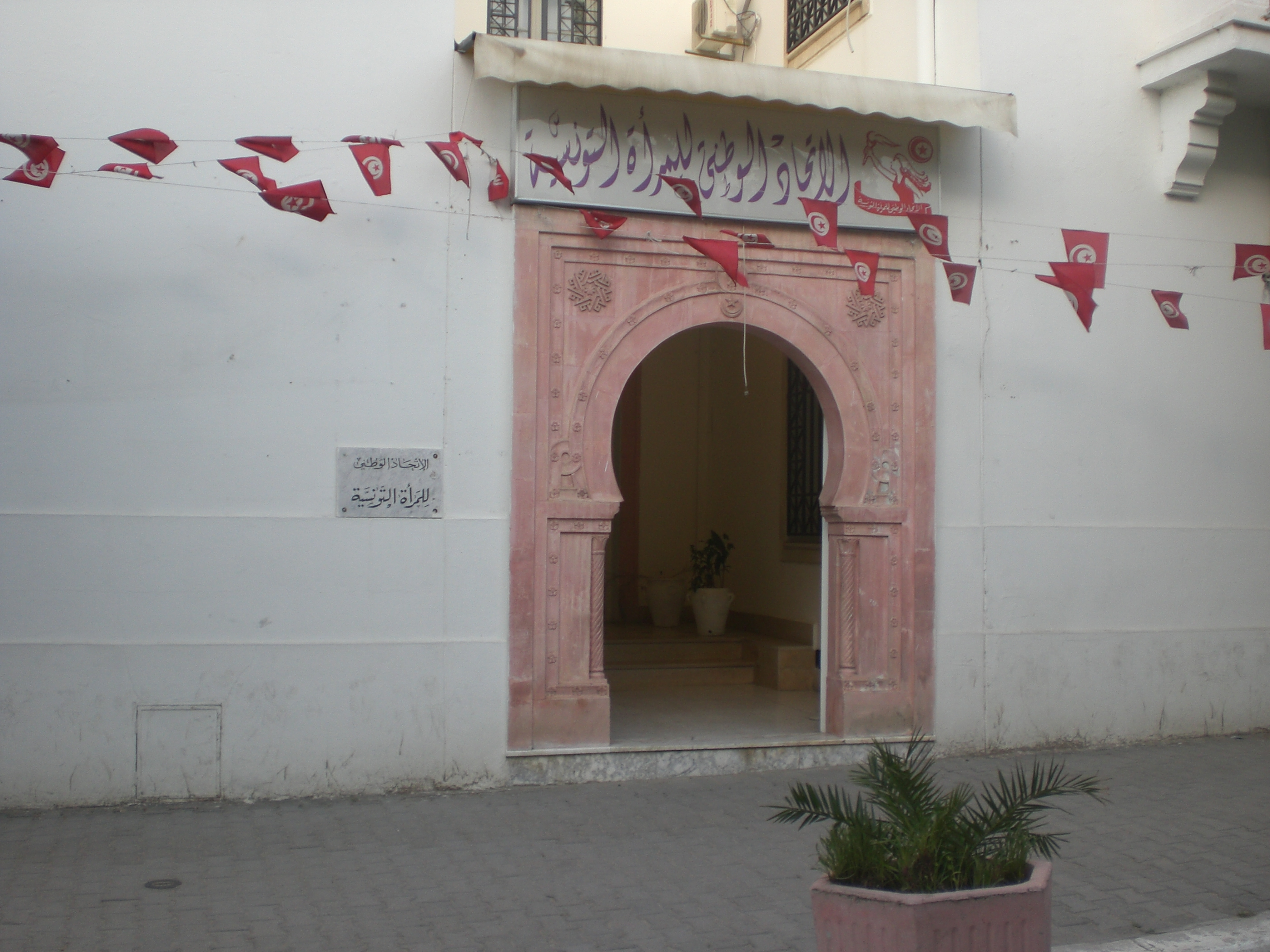 The headquarter of UNFT in Tunis